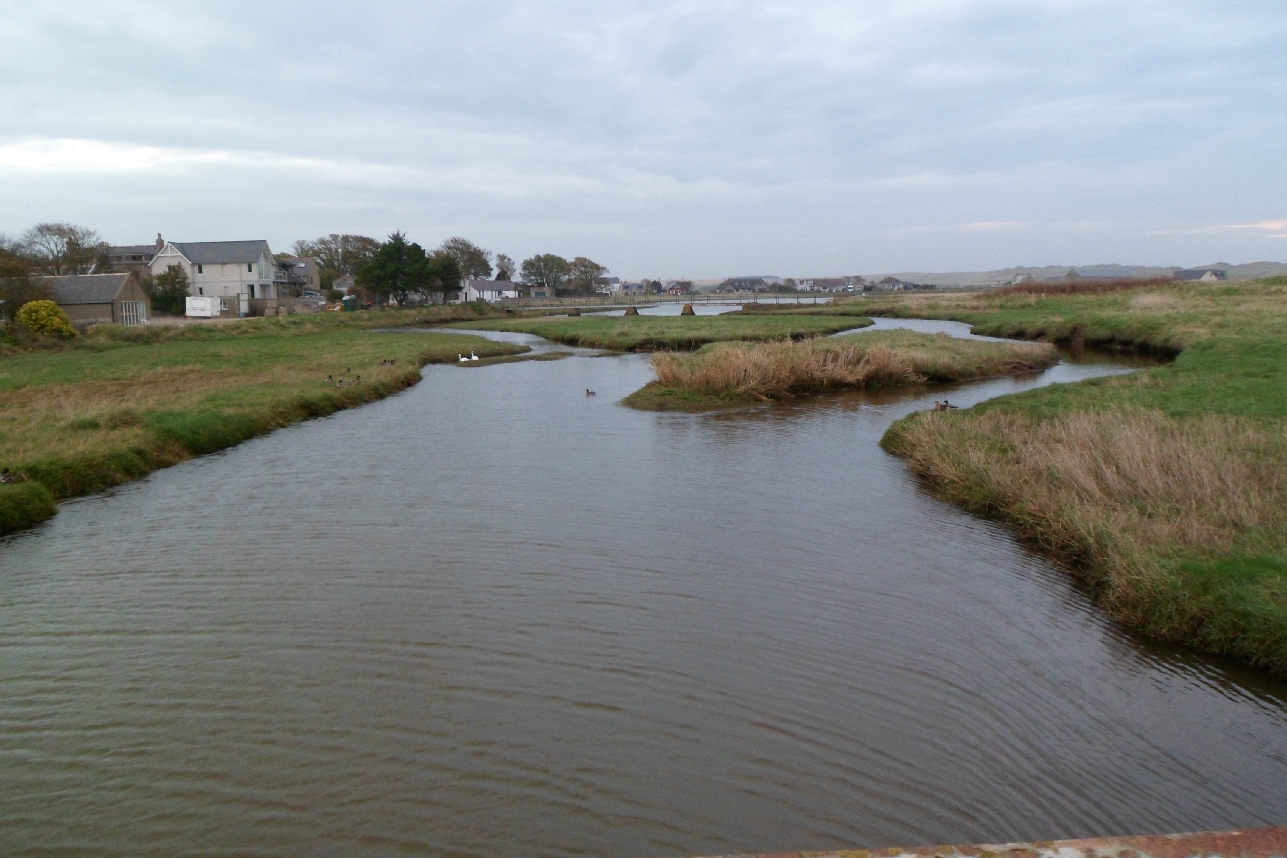 Ythan Estuary in Newburgh in Aberdeenshire, Scottland